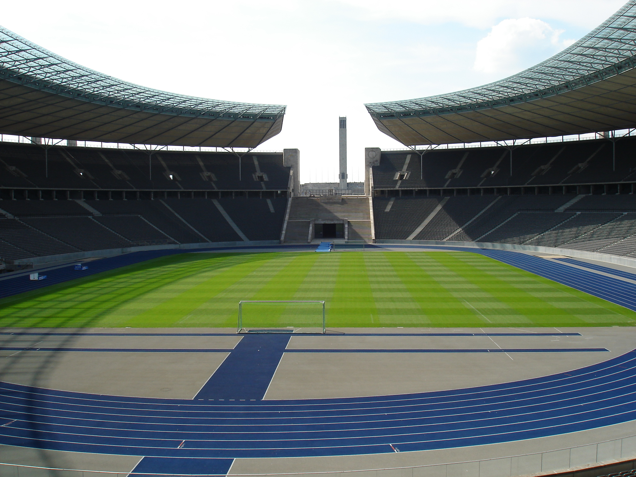 The Berlin Olympic stadium after renovation, seen from the tribune